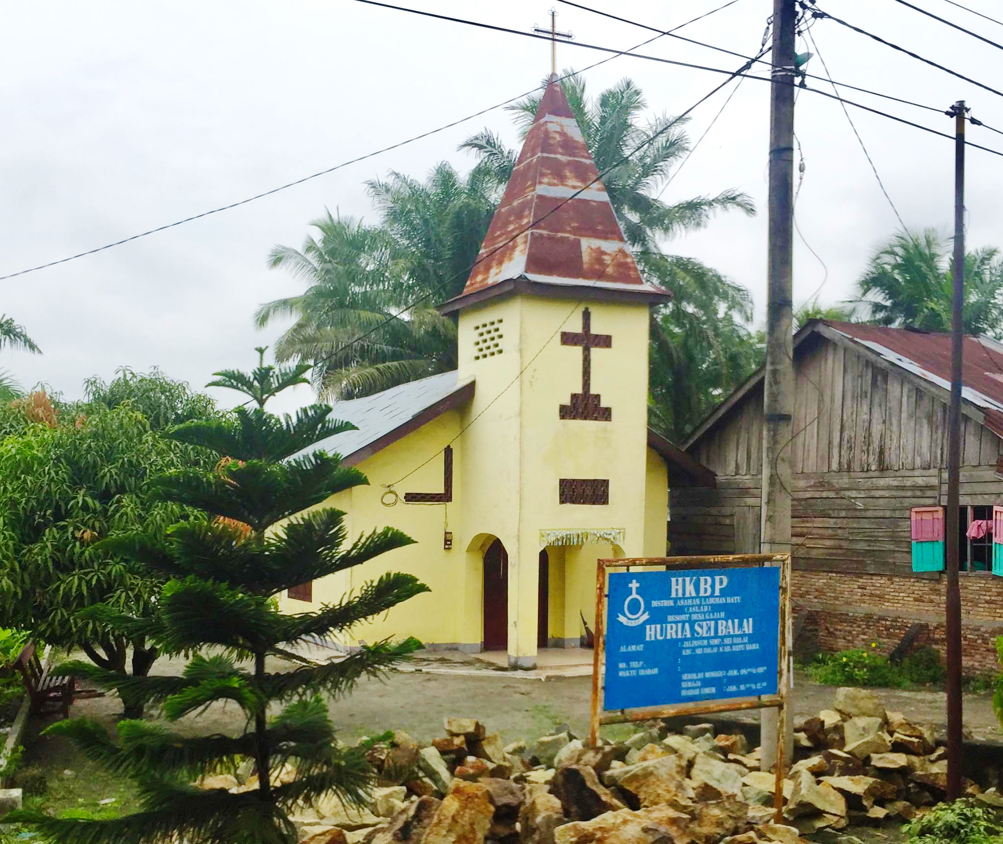 HKBP Sei Balai, Res. Desa Gajah Church in Sei Balai, Sei Balai, Batu Bara